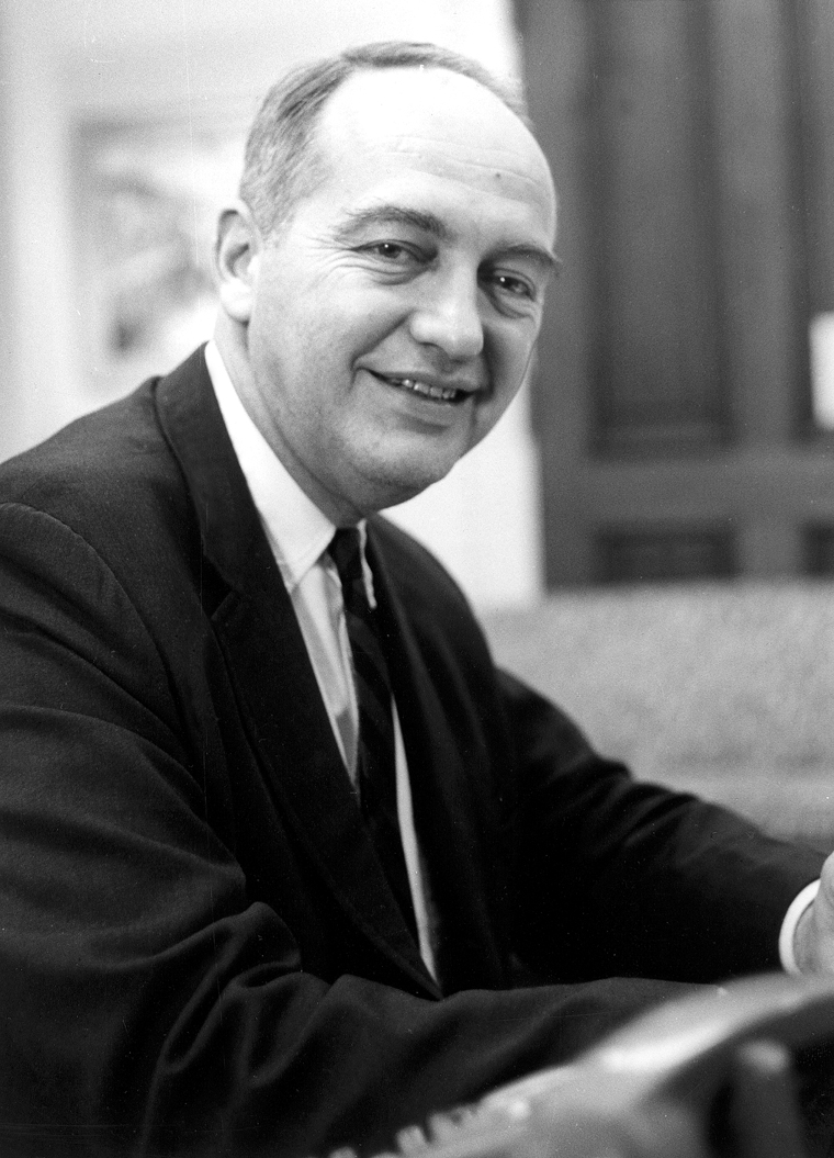 Kermit Gordon, Director of the United States Bureau of the Budget. Photograph from the Kermit Gordon Papers in the John F. Kennedy Presidential Library and Museum, Boston.